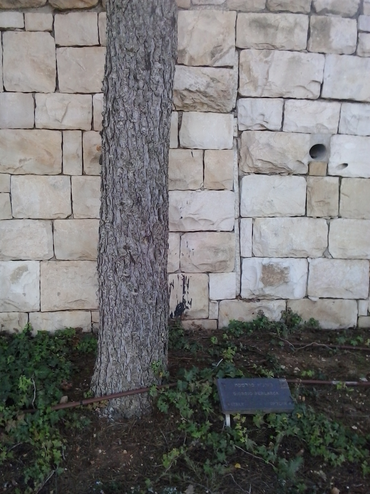 a tree planted at Yad Vashem honoring Giorgio Perlasca